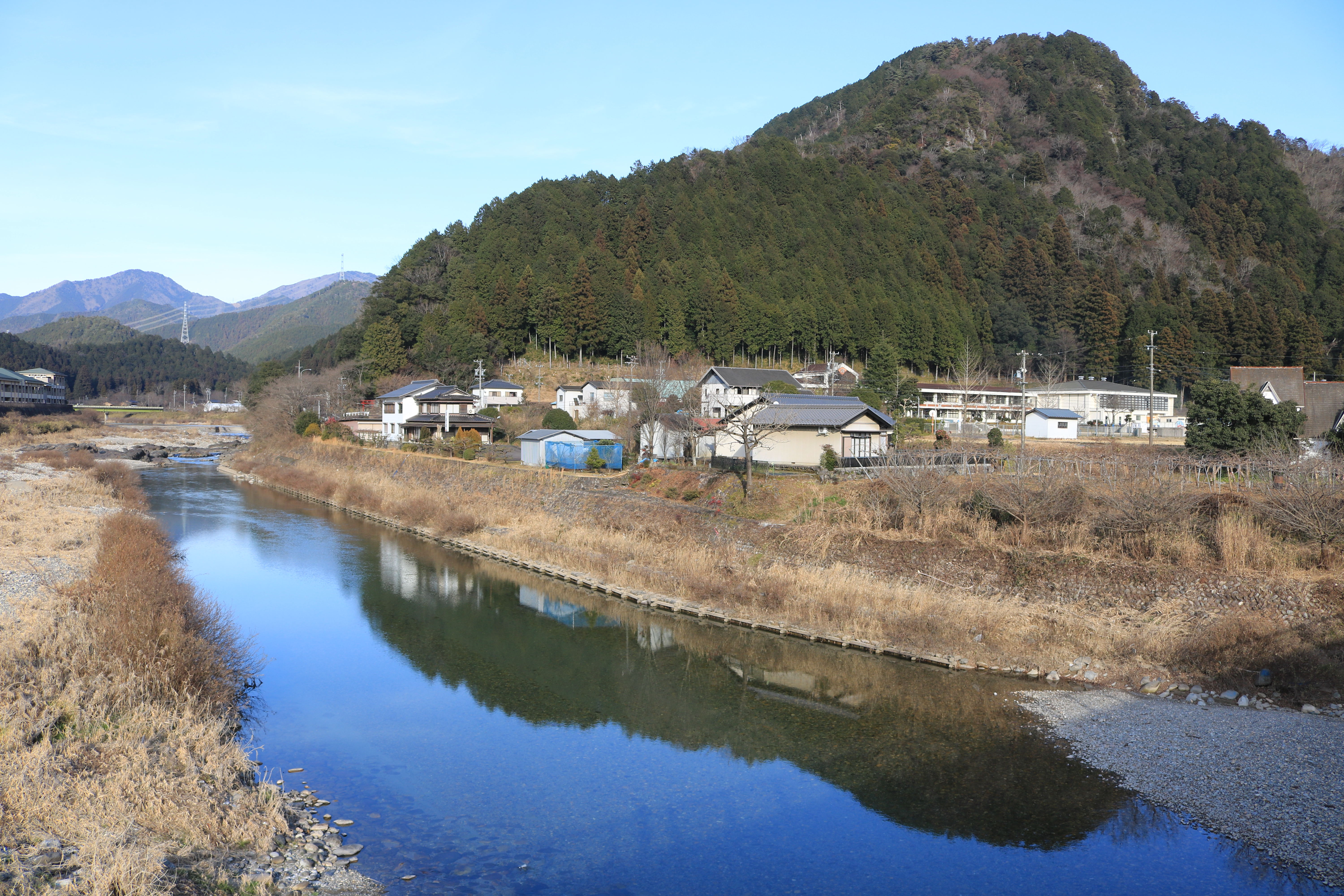 Itadori River seen from Horado Bridge in Horadoichiba, Seki, Gifu Prefecture, Japan.